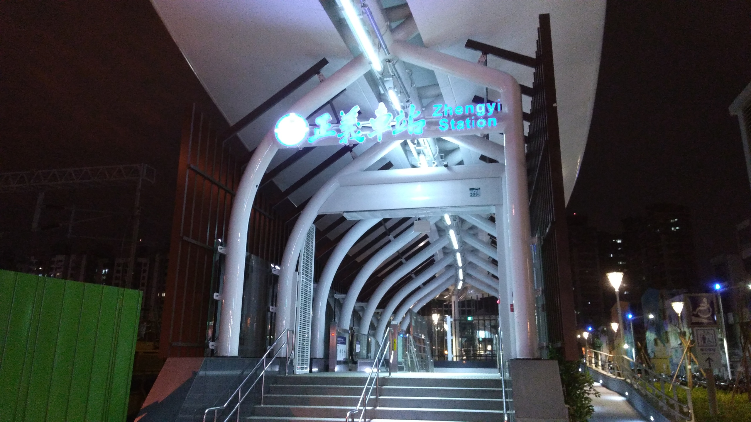 Night in TRA Zhengyi Station.